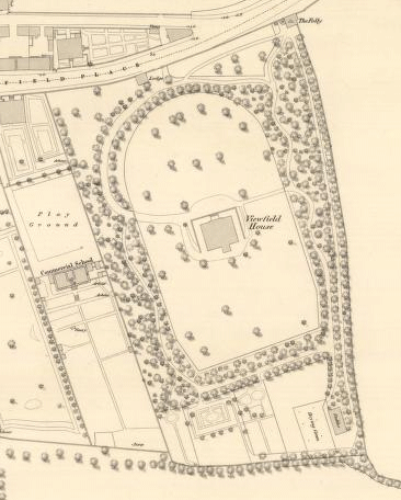 Viewfield House and grounds on 1854 OS map (1 to 1056 scale) Dunfermline sheet 5